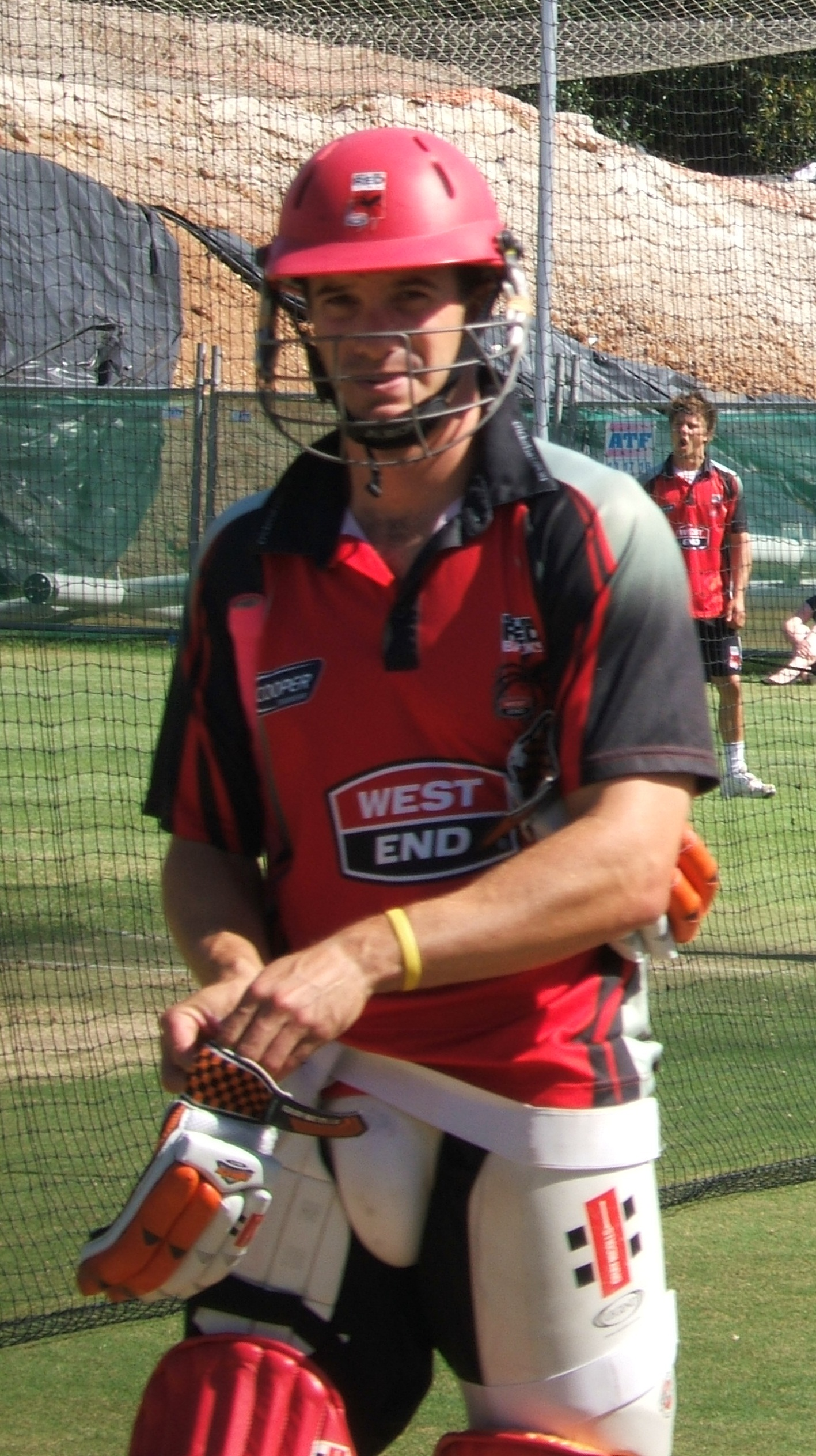 Named person engaging in named action at Adelaide Oval nets/training ground